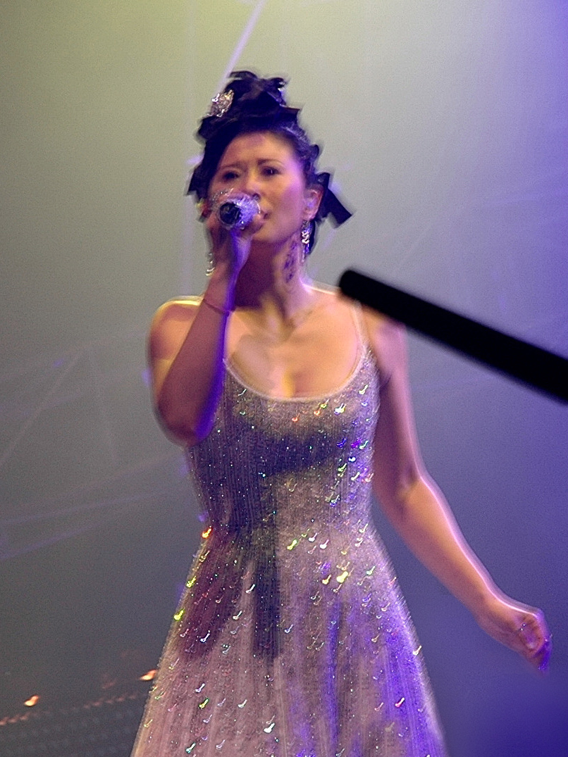 Sally Yeh